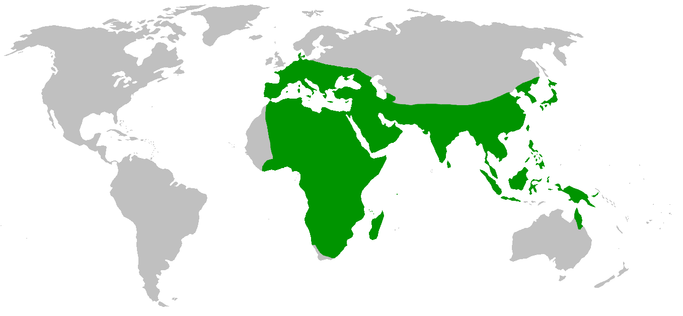 Dugesia genus distribution after Sluys et al. 1998. Sluys, R., M. Kawakatsu & L. Winsor 1998. The genus Dugesia in Australia, with its phylogenetic analysis and historical biogeography (Platyhelminthes, Tricladida, Paludicola). Zool. Scr. 27: 273-289.